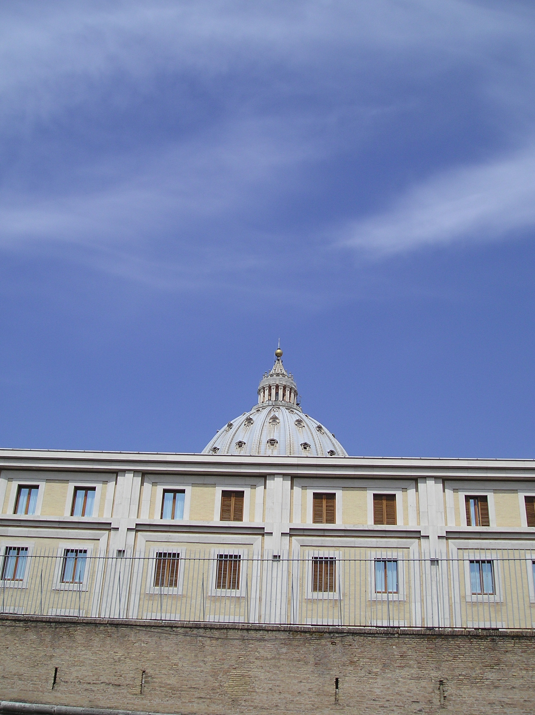 The Vatican guesthouse Domus Sanctae Marthae with the dome of St. Peter's Basilica in the background.